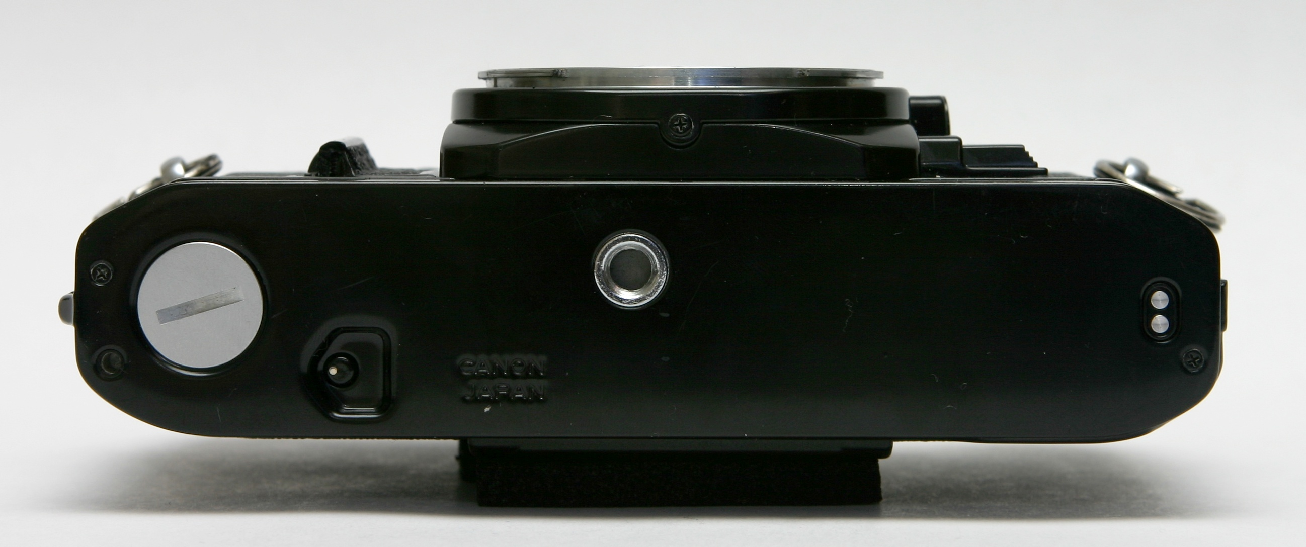 Black Canon AE-1 (1976) SLR camera from the bottom